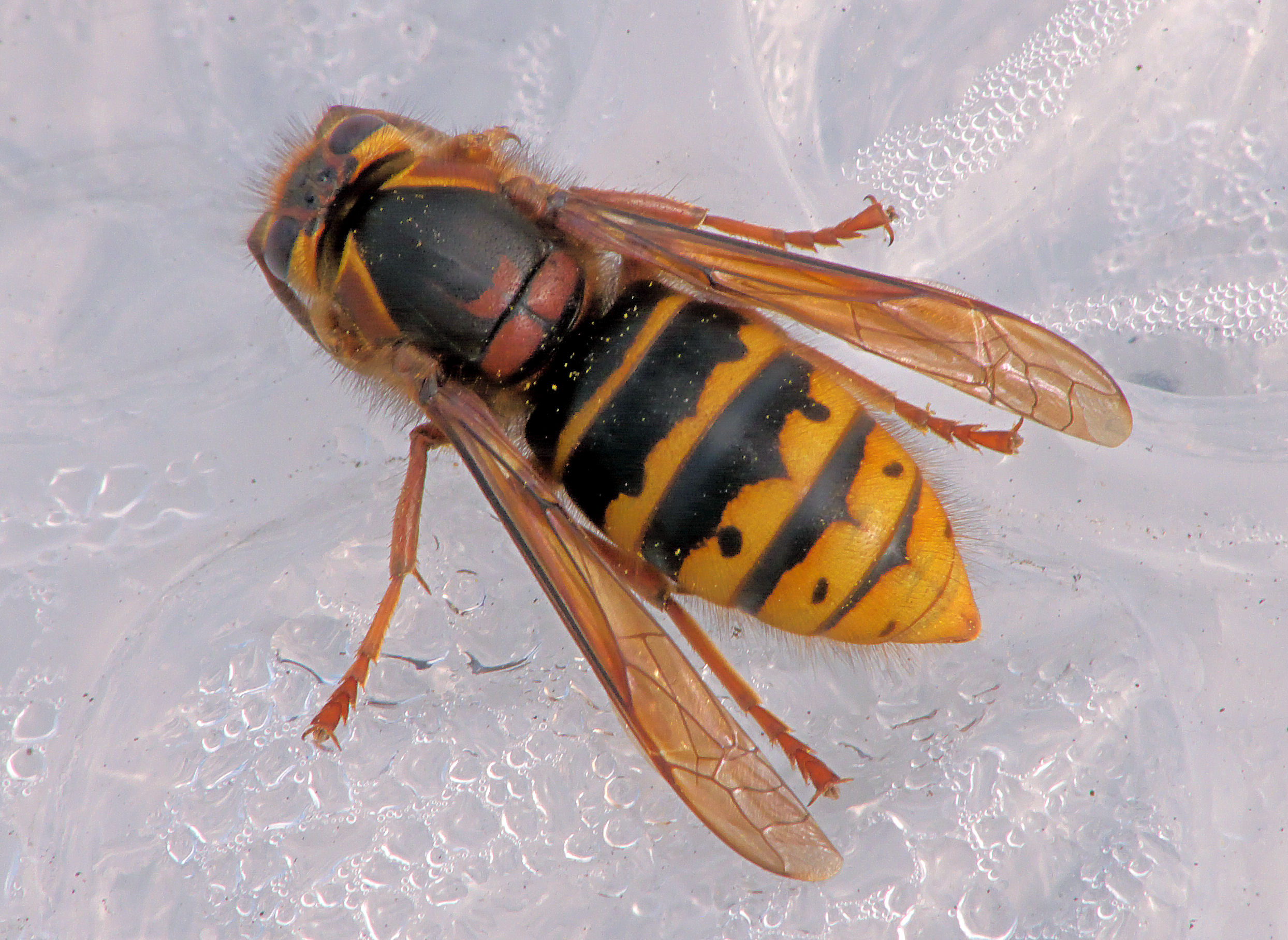 Dolichovespula media, queen, length 19 mm